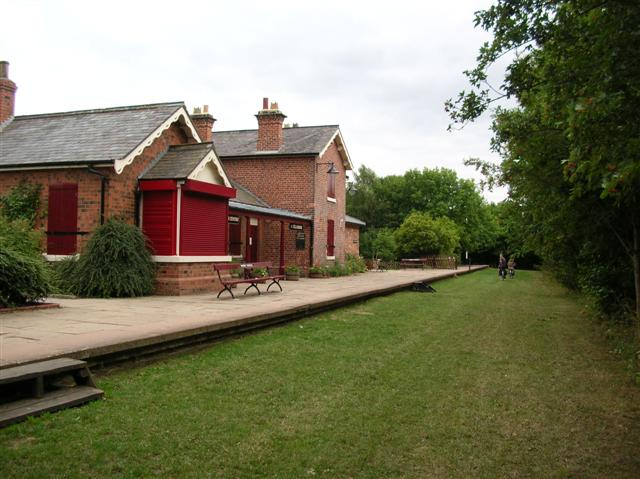 Thorpe Thewles Station. And for now the end of the line for the Haswell to Stockton cycle route. The route now continues on road for a bit before rejoining the line a mile further south.